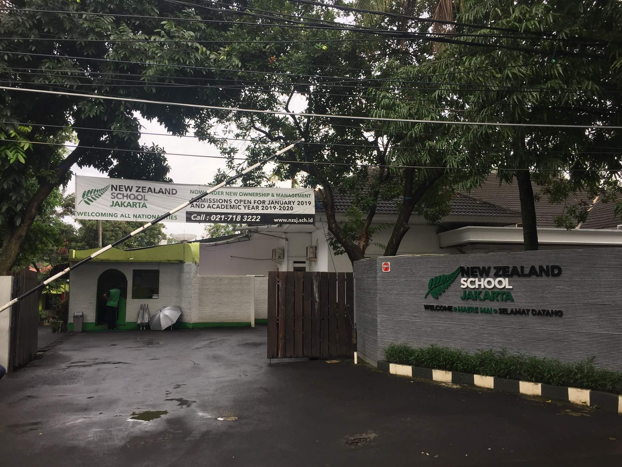 Gate of New Zealand School Jakarta